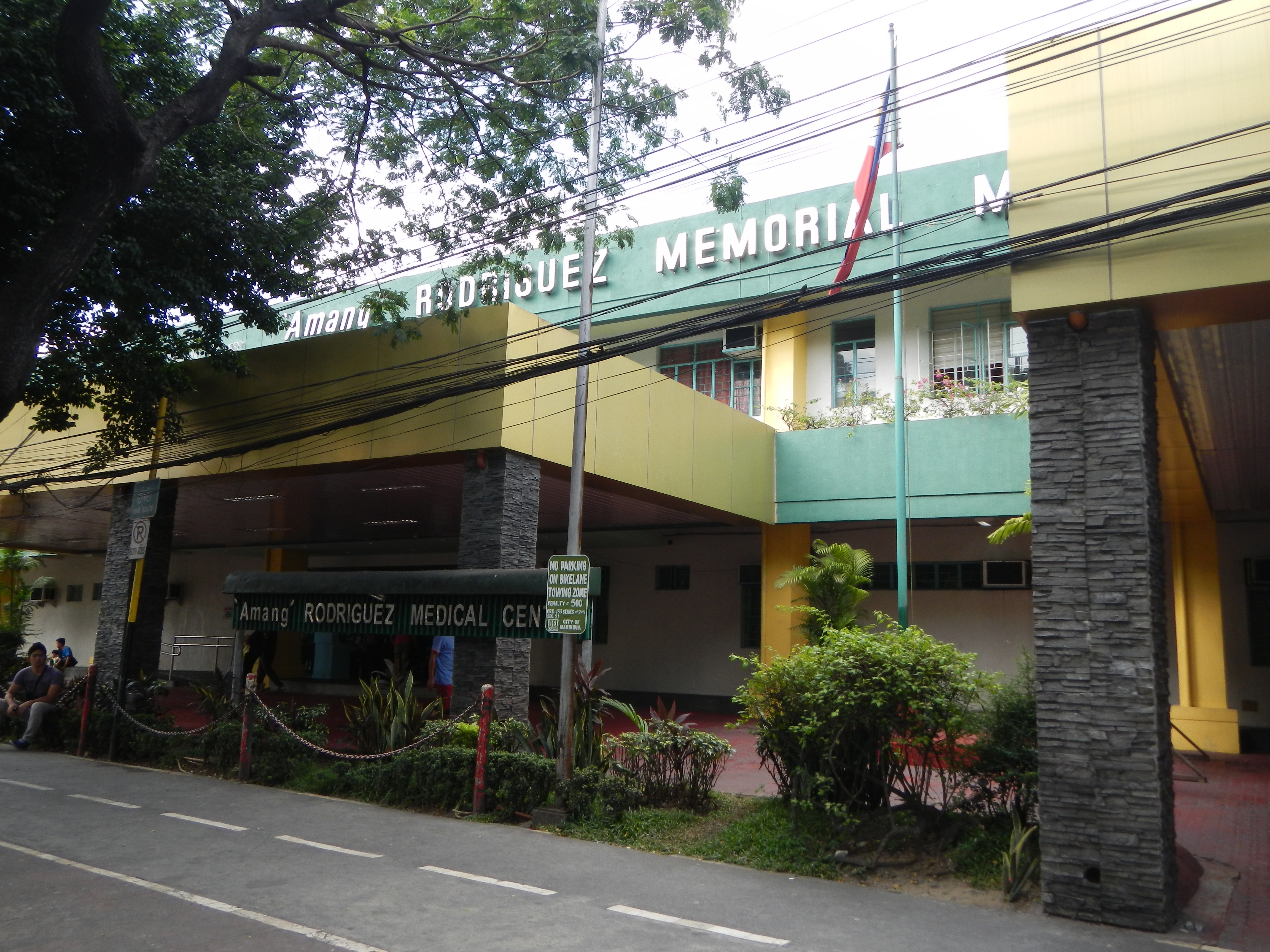 Upload Wizard photos of the - Marikina City[1] Marikina Arch Good Taste, City Plaza beside the Huge Marikina Sports Complex [2], Barangay Santo Niño Eulogio Rodriguez[3] Amang Rodriguez Medical Center Toyota Avenue Corner Sumulong National Road.